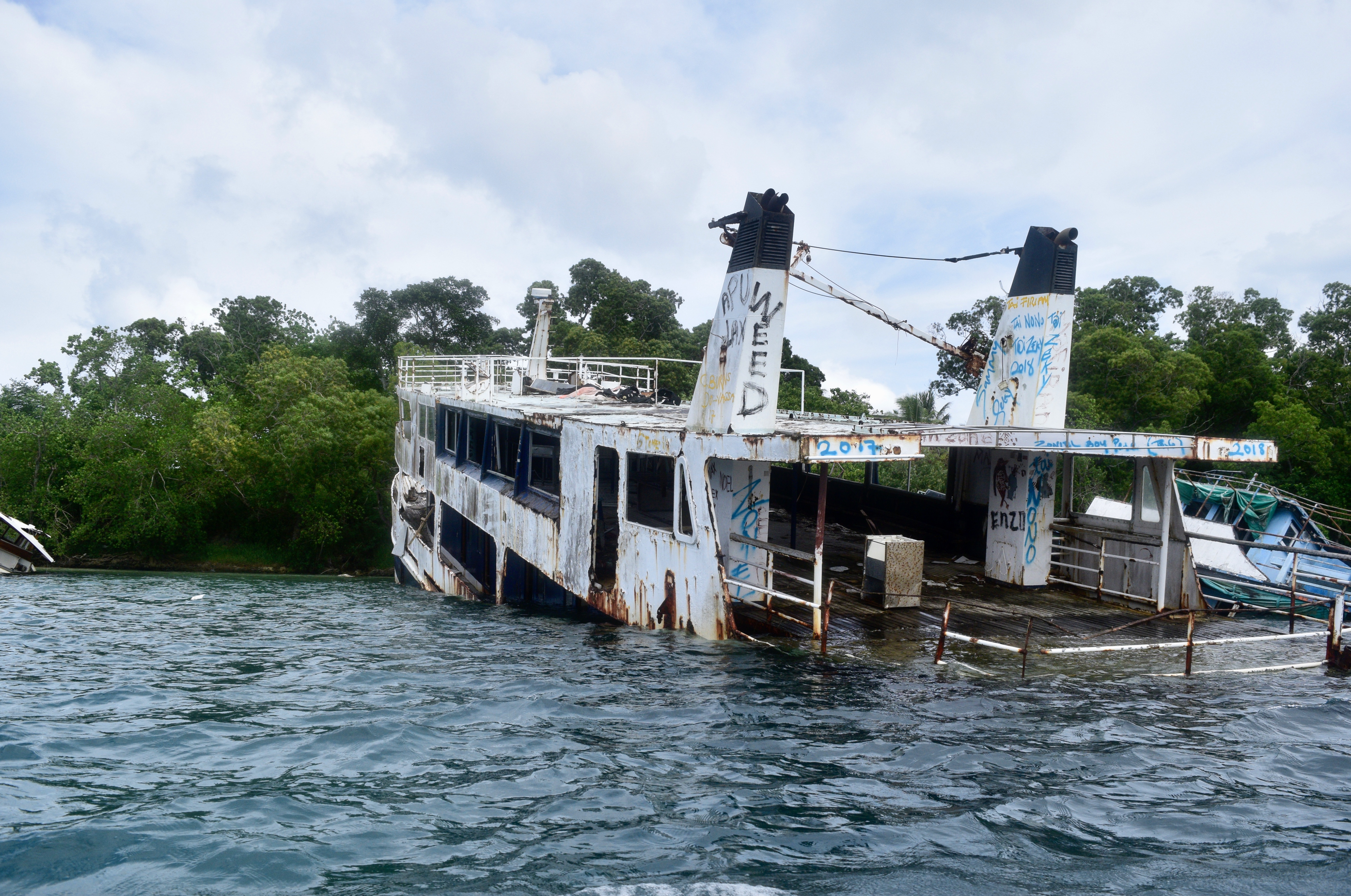 Remaining Debris from Cyclone Pam in March 2015. This photo was taken three years after the Cyclone, in February 2018.